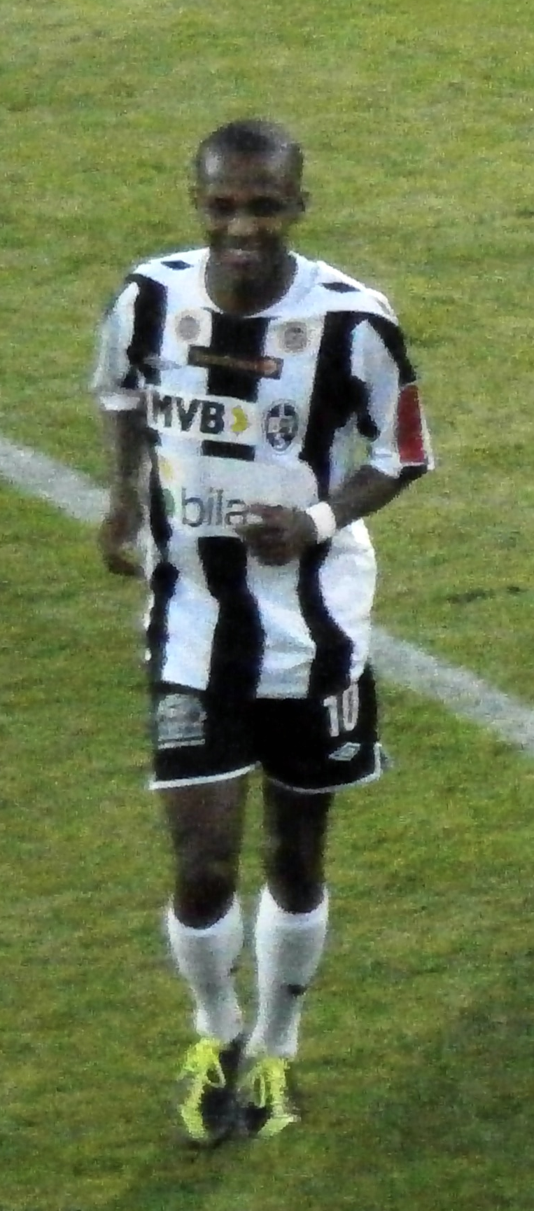 Suprise Ralani, Landskrona BoIS